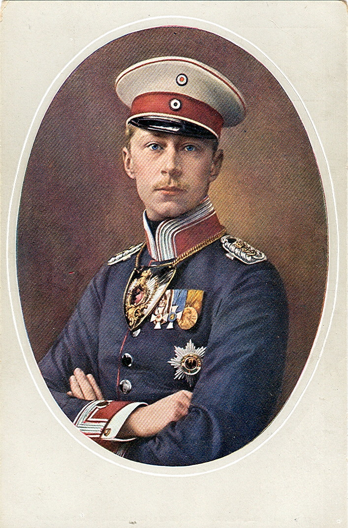 Postcard, undated ( ca.1915 ), showing Wilhelm, crown prince of Germany, as German general.